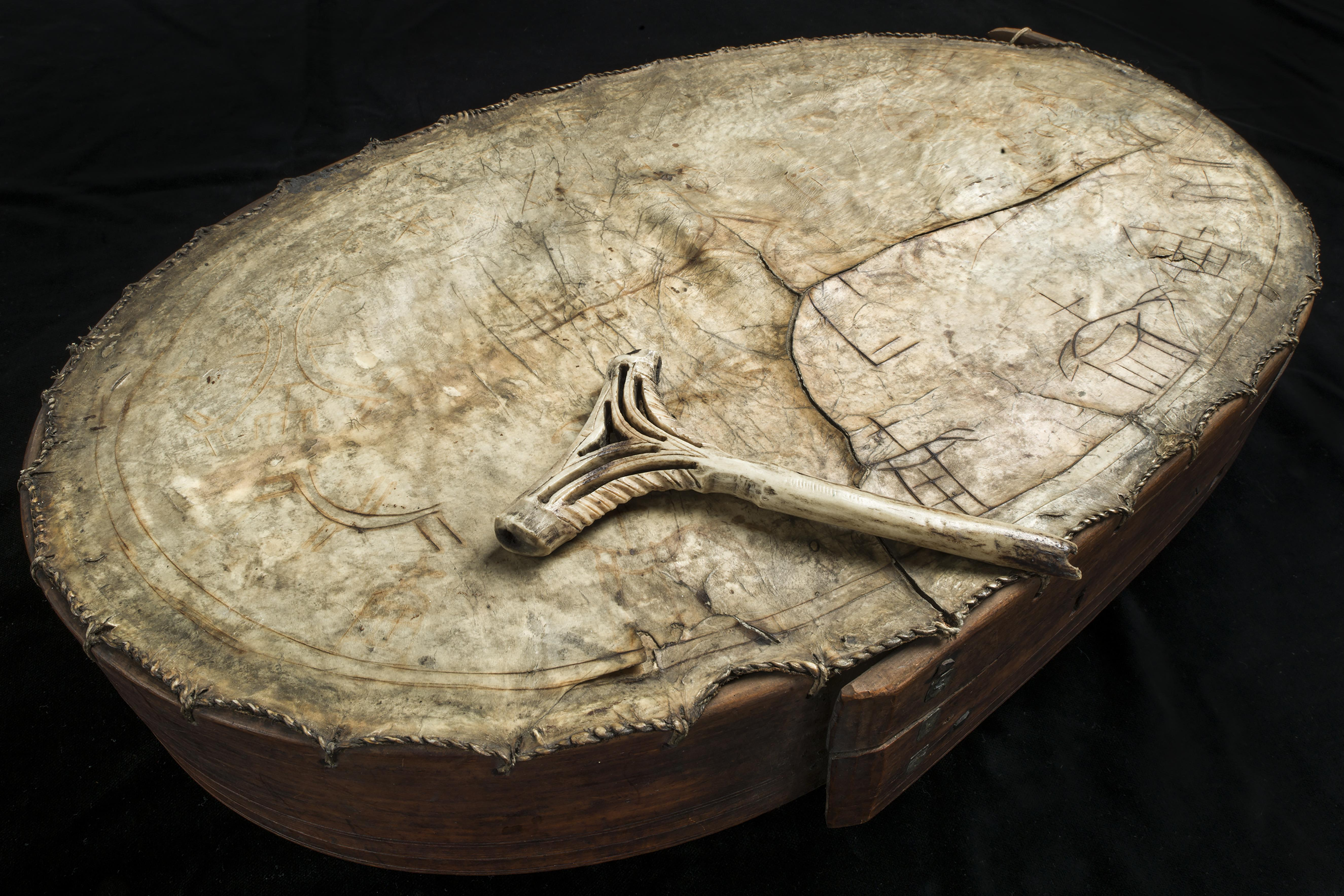 Sami drum from Nordland or Troms. Frame drum. Frame drum. 55 x 35 cm. No 12 in Ernst Manker's Die lappische Zaubertrommel (1938/1950). Probably accuired by bishop Johan E. Gunnerus of Trondheim in 1761 as a gift from chaplain Fredrik A. Bødtker of Tromsø. Probably donated by Gunnerus to museum after his death 1773. Lost, then refound in museum archives in 1930. Now at Vitenskapsmuseet, Trondheim. In the Sami-tradition was «Runebommen» a ritual instrument that the Shaman (naioaden) used to enter a trance-like state, in order to enable the soul to travel to other places and dimensions in order to retrieve information. Using the drum as an oracle that could give answers to where the reindeers should be moved, was usual. At that time, this tradition was seen as practicing religious heresy and was forbidden. Representatives of the church confiscated all the drums they came by, and the owners risked brutal treatment. The drum on the picture has been given the name “Gunnerus-trommen”, is part of the NTNU University Museum’s collections and is today exhibited at the museum. The name comes from that it probably used to belong to Johan E. Gunnerus, one of the Royal society’s founders, who received a runebomme fram a priest in the North of Norway. The shape of the drum and the pattern on the skin varied from district to district. But it was usual that the patterns on the drum depicted its owner and his family’s worldview. The oldest drum we know of, stems from the 1600s, but it still happens that old drums; hammers and other equipment reappear from hiding places such as cracks or gaps in the mountains. Text: NTNU University Museum in collaboration with Halldis Nergaard, Adresseavisa. For a schematic reproduction of the drum symbols; see File:Sámi mythology shaman drum Samisk mytologi schamantrumma 019.png